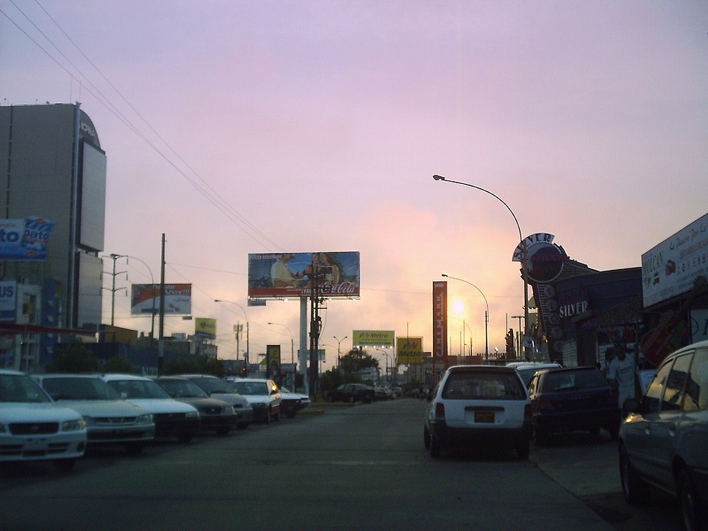 This picture was taked by me on march 26, 2006 with a Vivitar camera